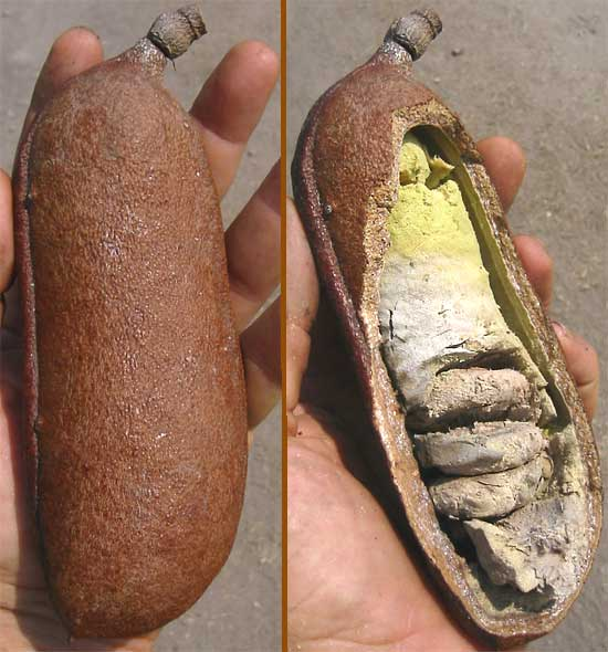 Bean pod of Bacú or Guapinol (Hymenaea courbaril)